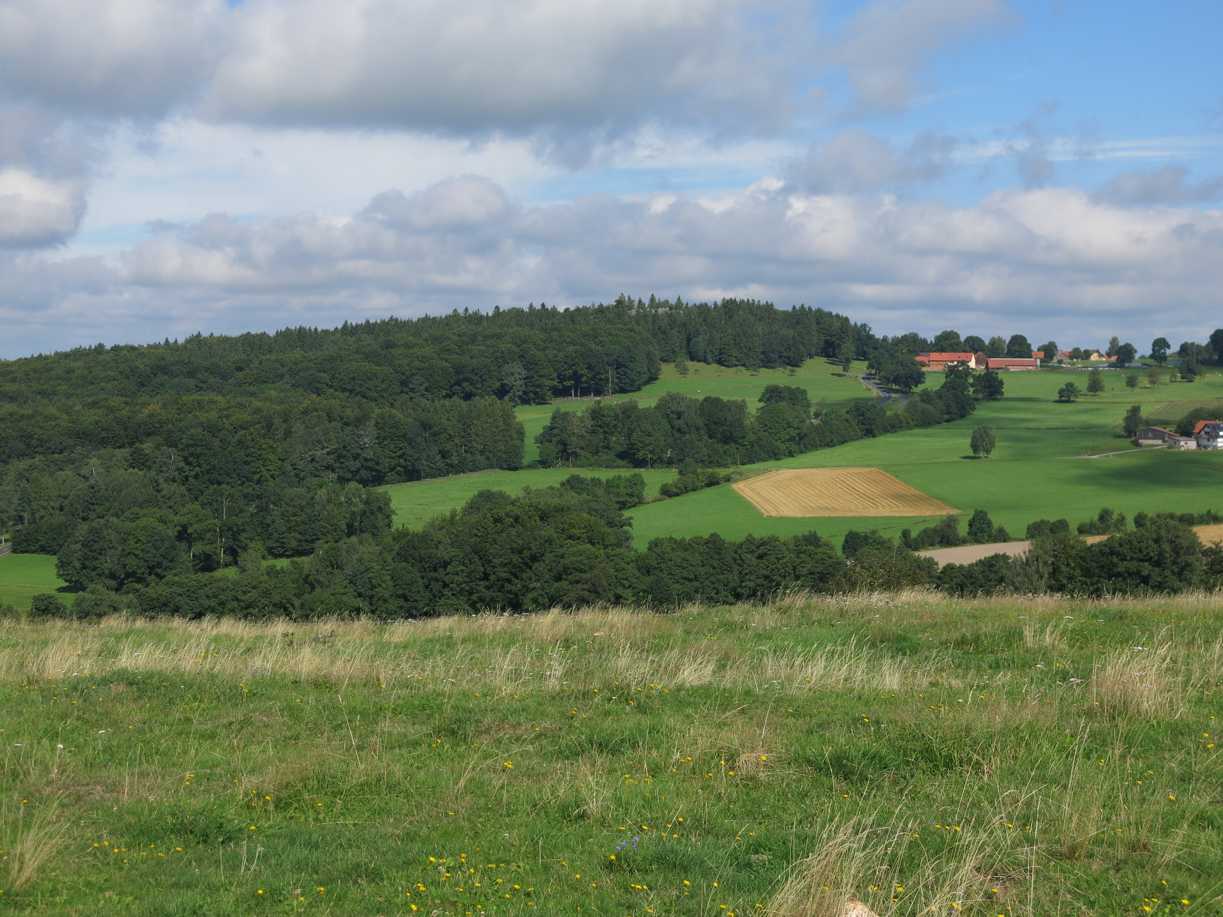 The Steinwand in the Rhön Mounteins seen from southeast. The rocks, which are popular with climbers, rise just out of the woods.